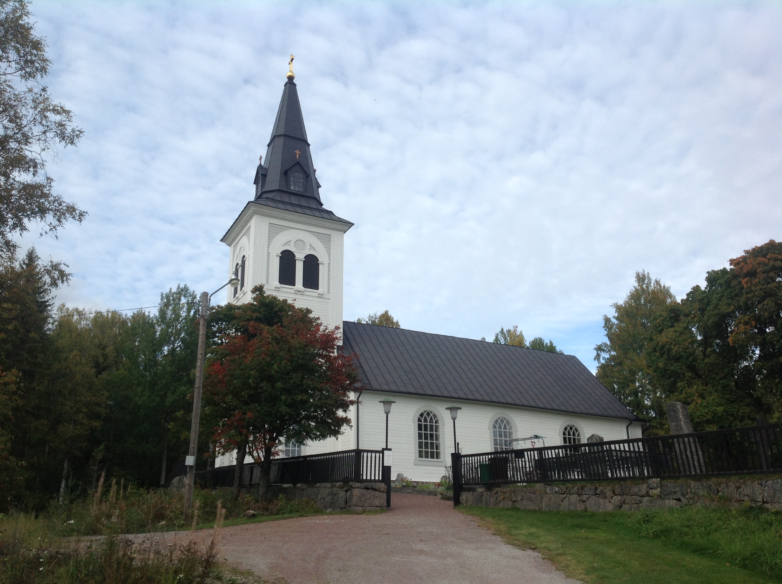 Church of Svartnäs in the diocese of Västerås, photographed from the south. The church was built in 1794.